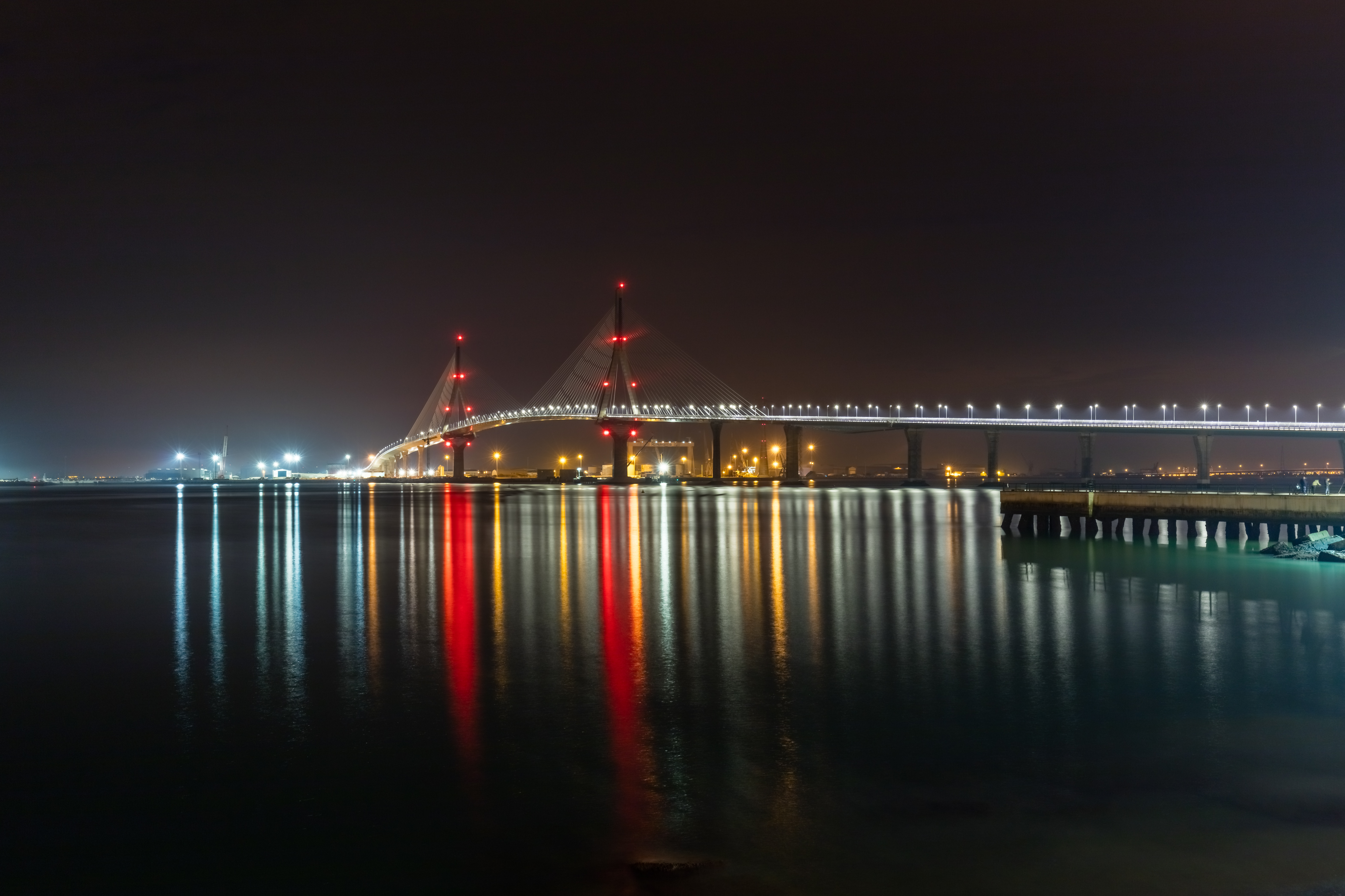 Constitution of 1812 Bridge, Cádiz, Spain